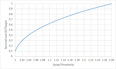 The isolated or semi-isolated via CD is highly sensitive to reductions of dose such as from shot noise. A 10% dose reduction leads to greater than 10% reduction of CD. In the extreme case, the via fails to print. Ref.: R. L. Bristol and M. E. Krysak, Proc. SPIE vol. 10143, 101430Z (2017).